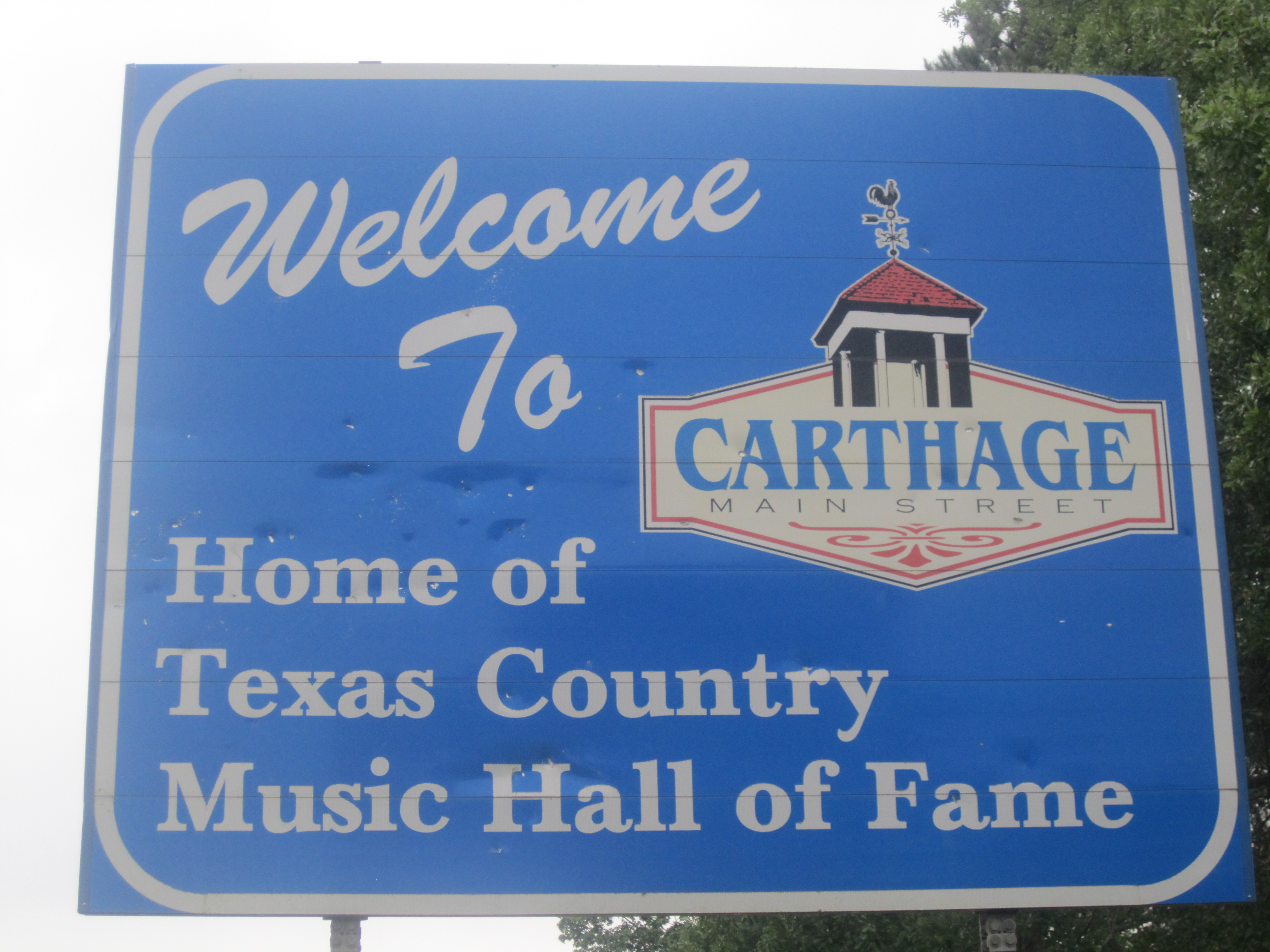 I took photo in Carthage, TX, with Canon camera.